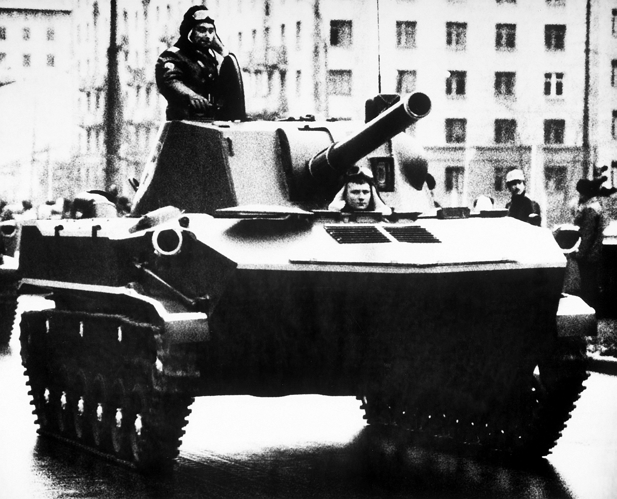 Soviet Self-Propelled Armored 120mm Howitzer 2S9 Nona.